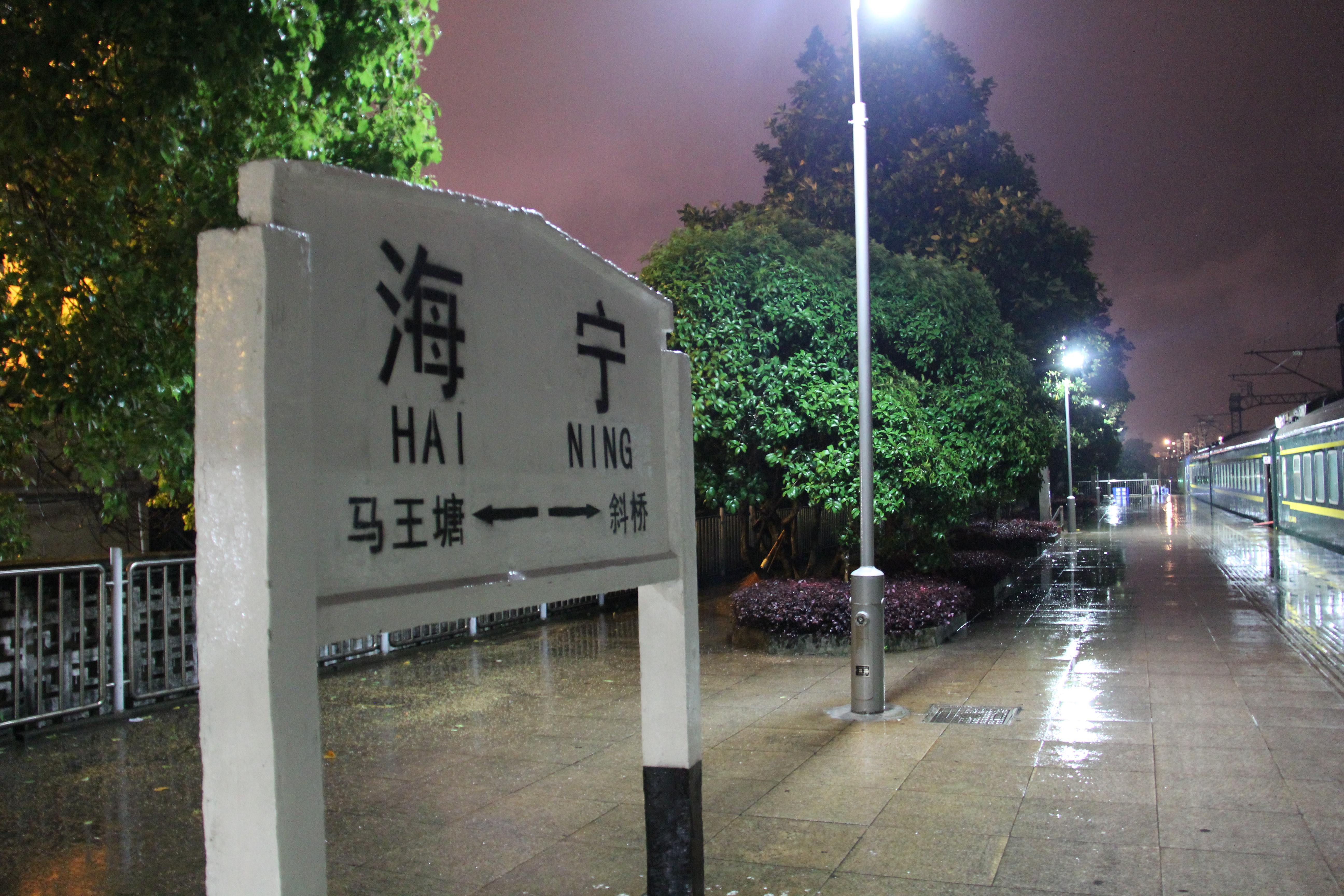 201605 Haining Station nameboard